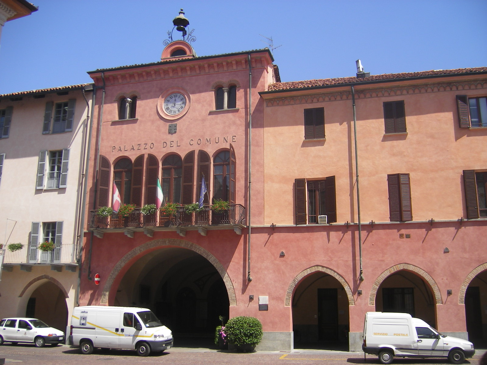 Alba - Town hall